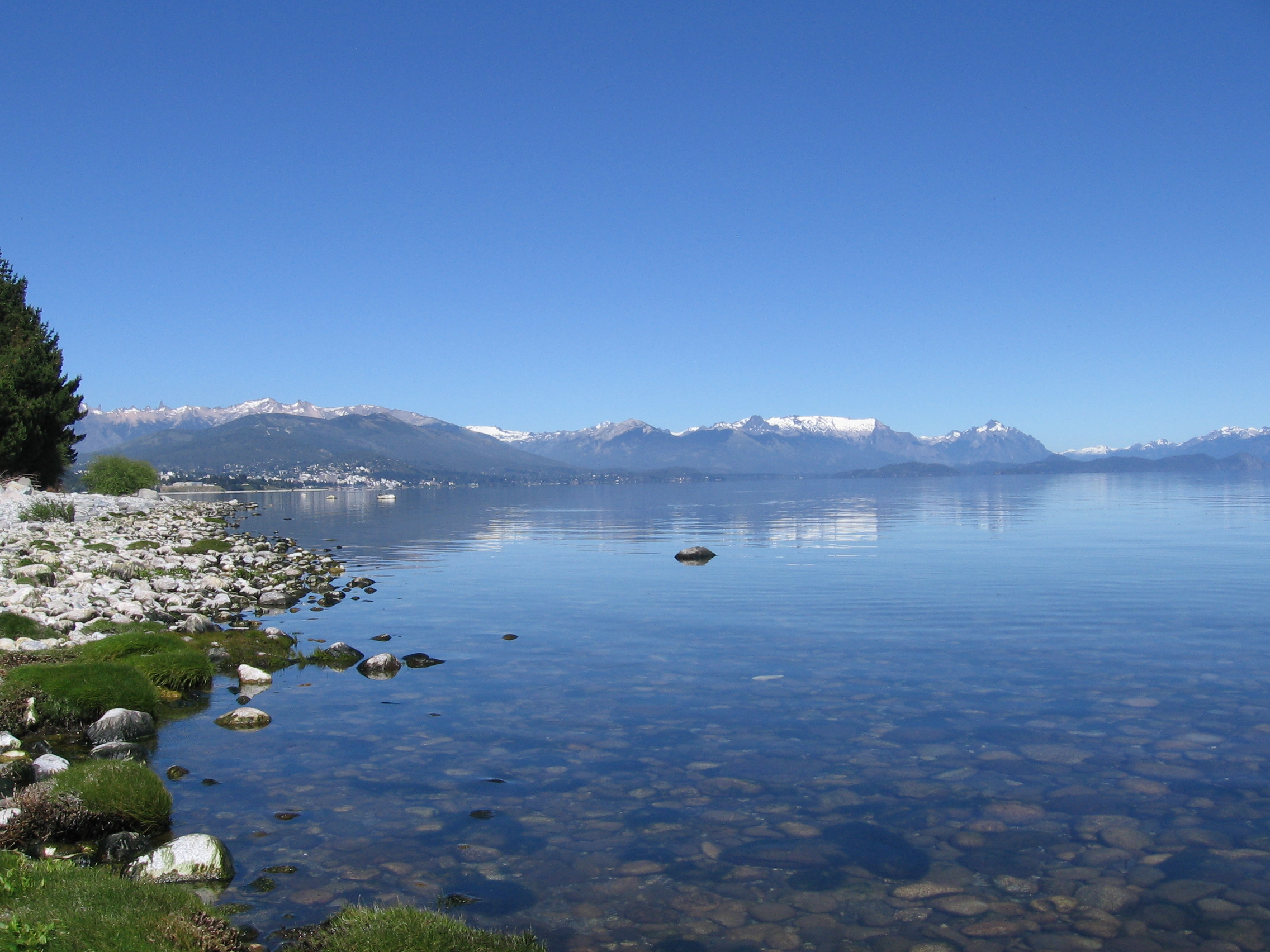 Nahuel Huapi Lake. Picture taken from San Carlos de Bariloche coast.